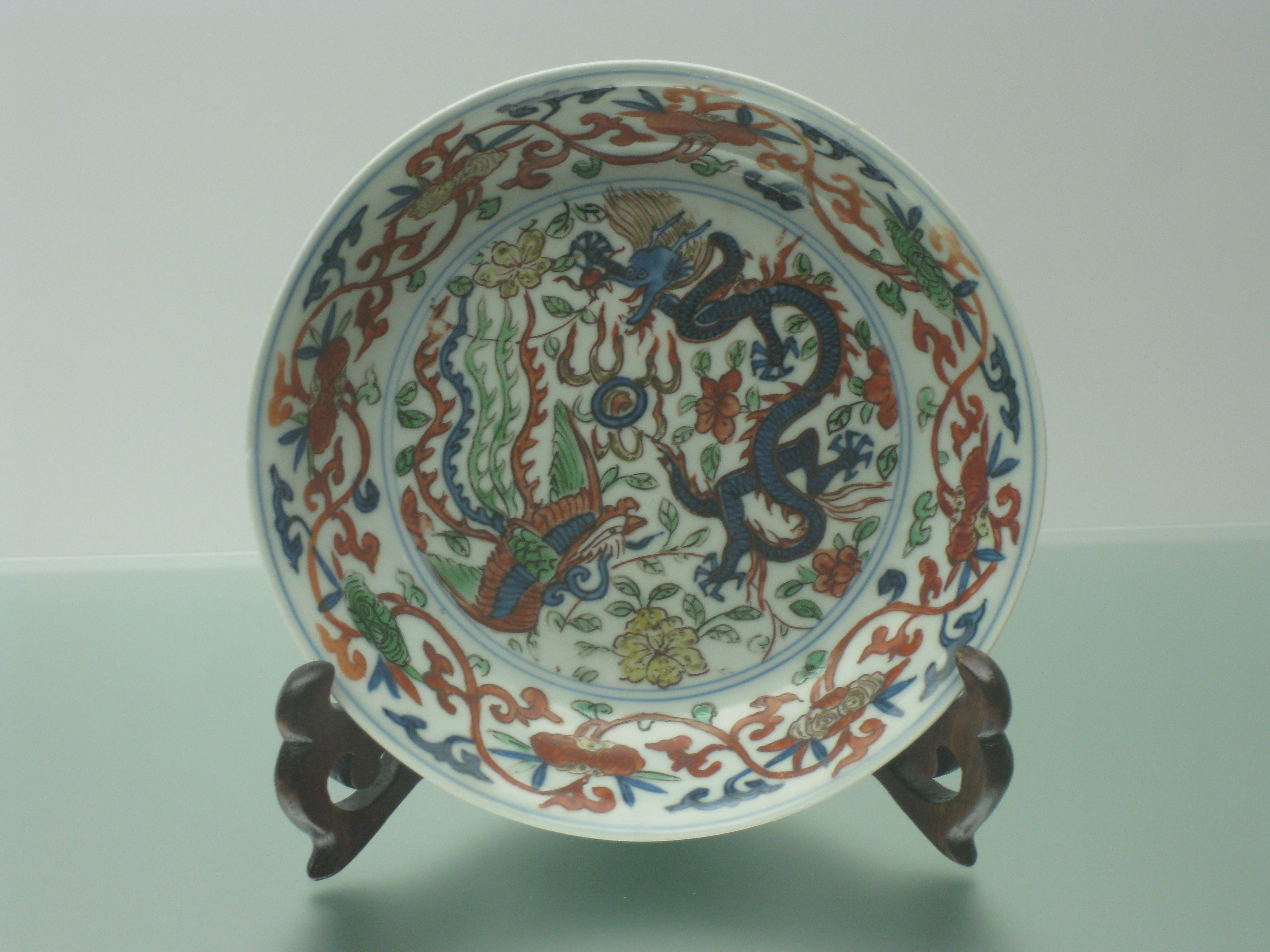 Exhibits in Hong Kong Museum of Art